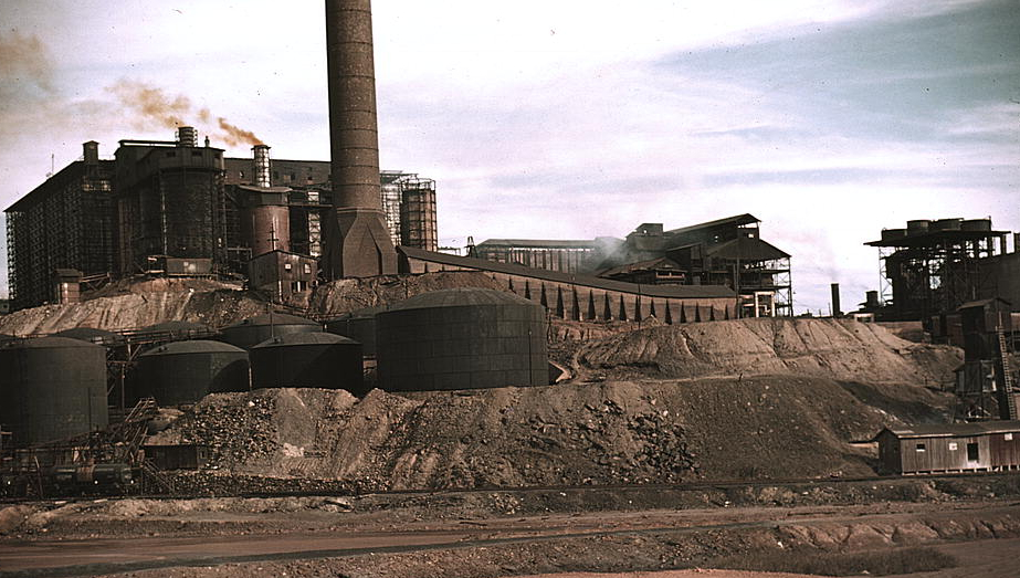 Wolcott, Marion Post, 1910-, photographer. Copper mining and sulfuric acid plant, Copperhill], Tenn. 1939 Sept. 1 slide : color. Notes: Title from FSA or OWI agency caption. Transfer from U.S. Office of War Information, 1944.